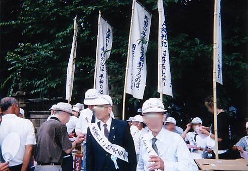 Eirei ni kotaeru Kai(Association to repay for Japanese fallen heroes) members